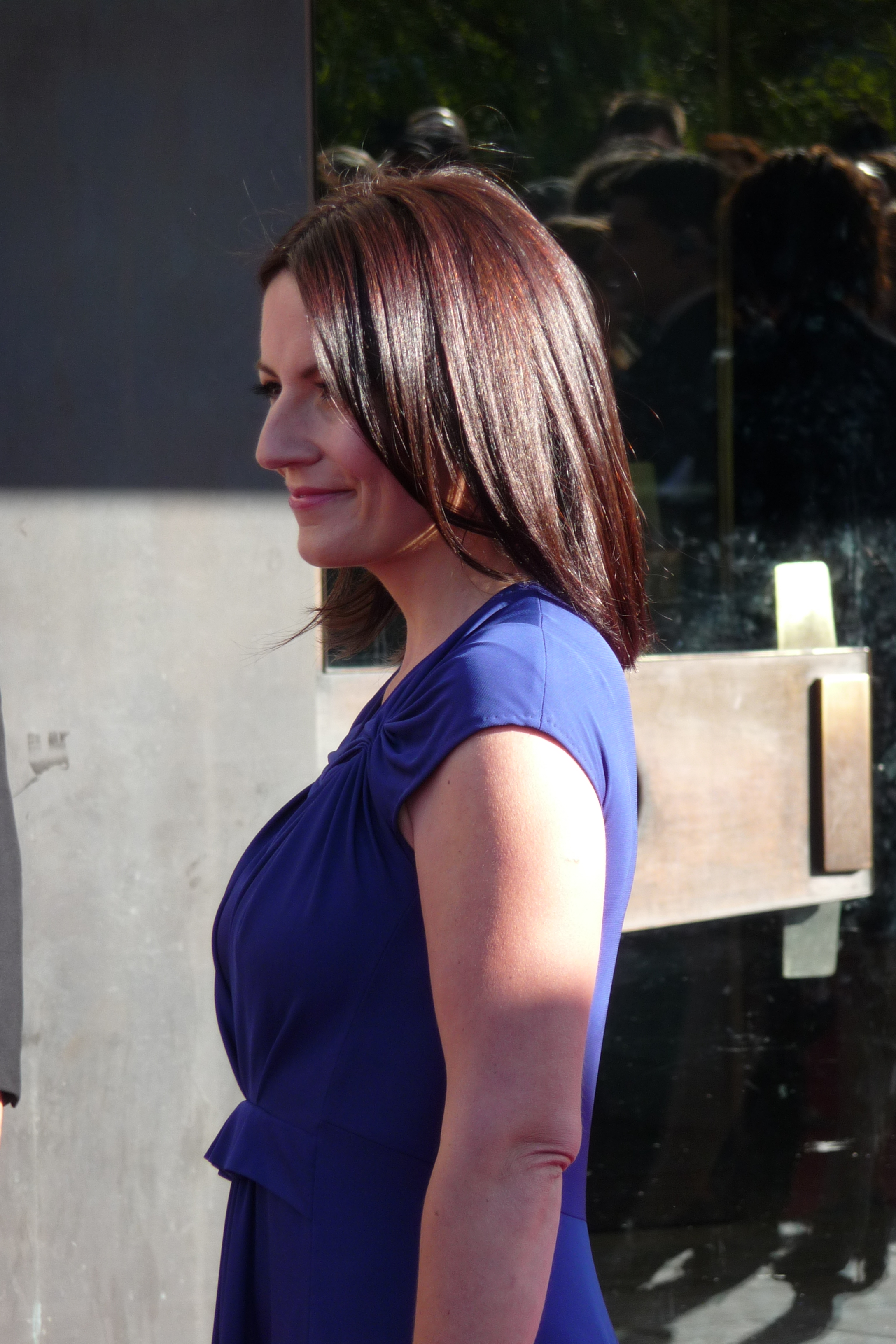 Davina McCall at the BAFTA's on 26 April 2009.